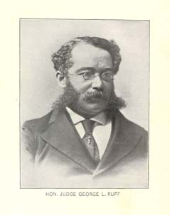 The image of American judge and politician George Lewis Ruffin (1834–1886)